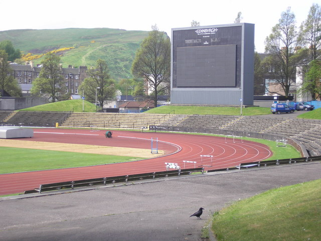 Meadowbank Stadium The view of the running track and scoreboard at Meadowbank Stadium.